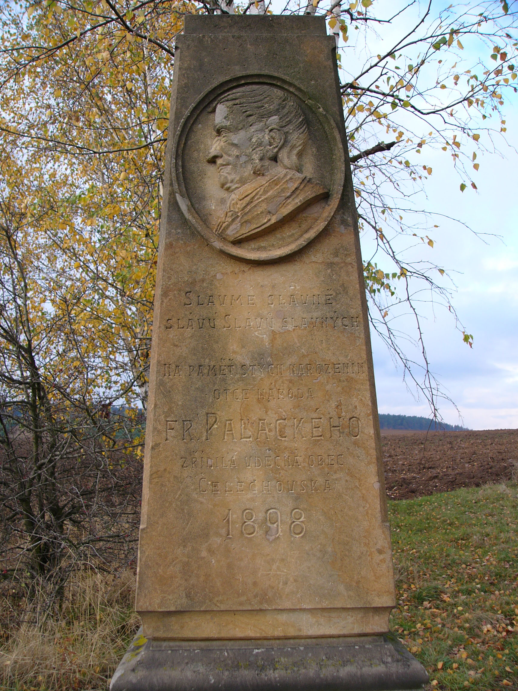 One of many memorials to František Palacký, west from NPP Státní lom, Čelechovice na Hané, (Czech Republic.